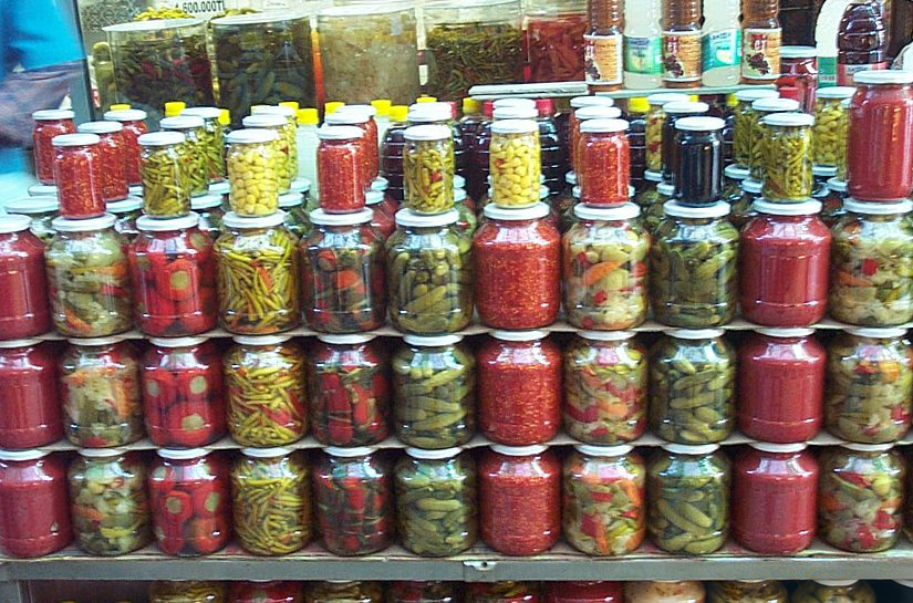 Sahne sokak, Beyoğlu, Istanbul